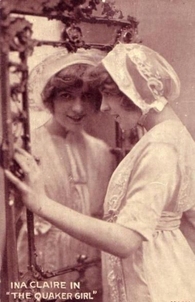 This is a used 1911 postcard titled "Ina Claire In The Quaker Girl." Highlighted in blue on the back it reads "The Musical Comedy Success On Three Continents. Now playing at the Park Theatre, 59th St. & Broadway (Cohan Bus Circle)."